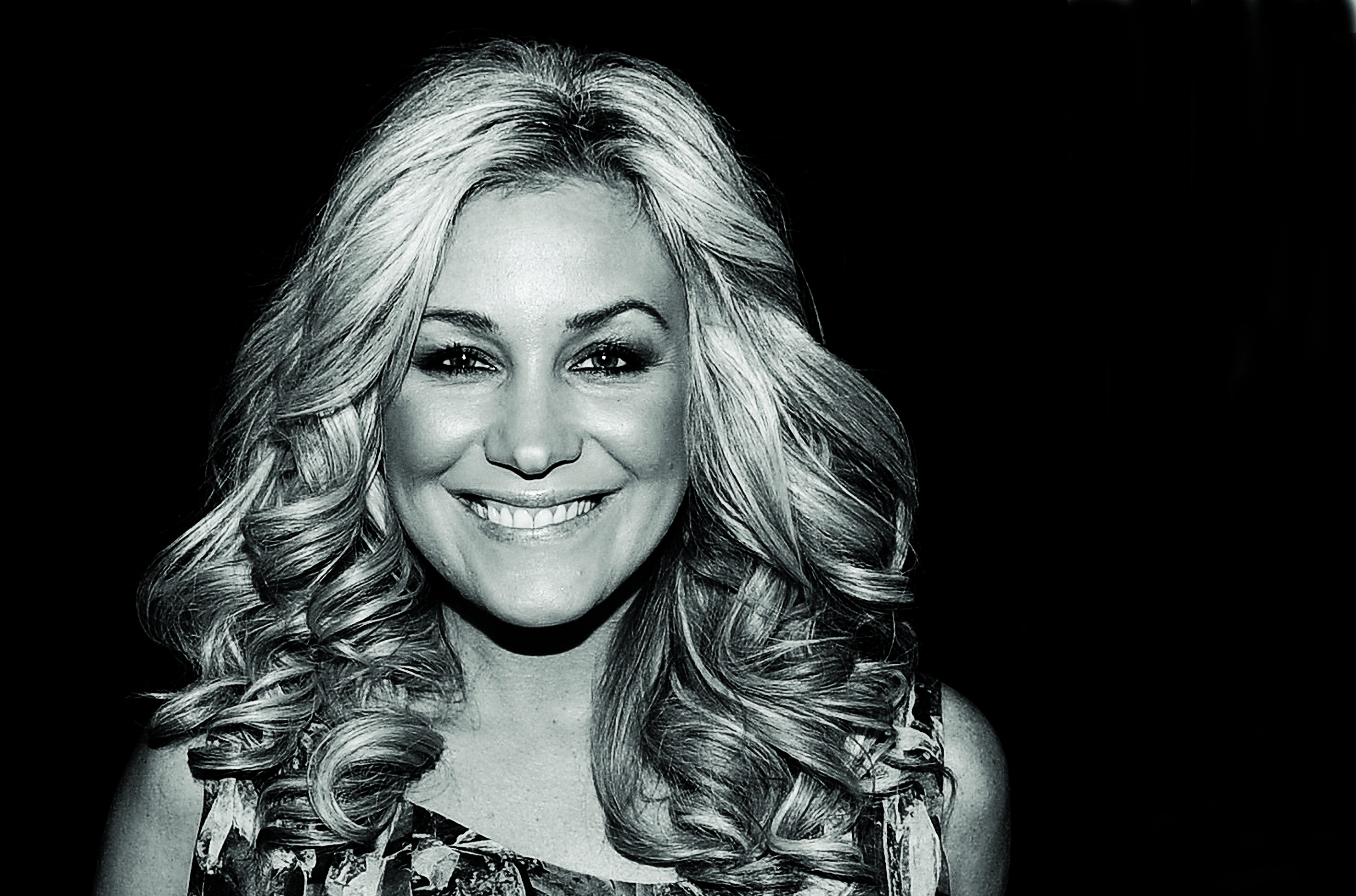 Swedish singer Jessica Andersson in a promotional photo for the The Swedish Heart-Lung Foundation.